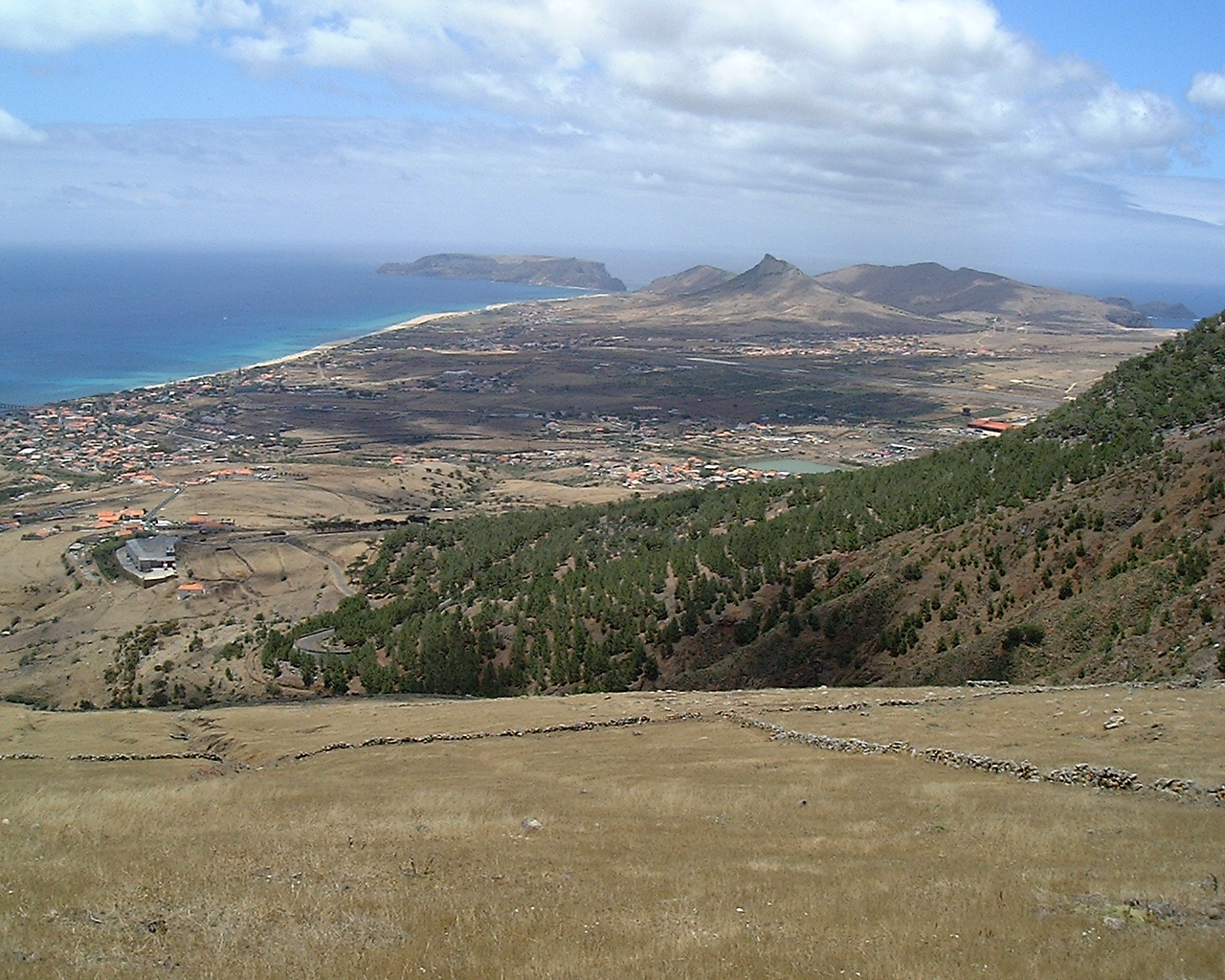 Island Porto Santo